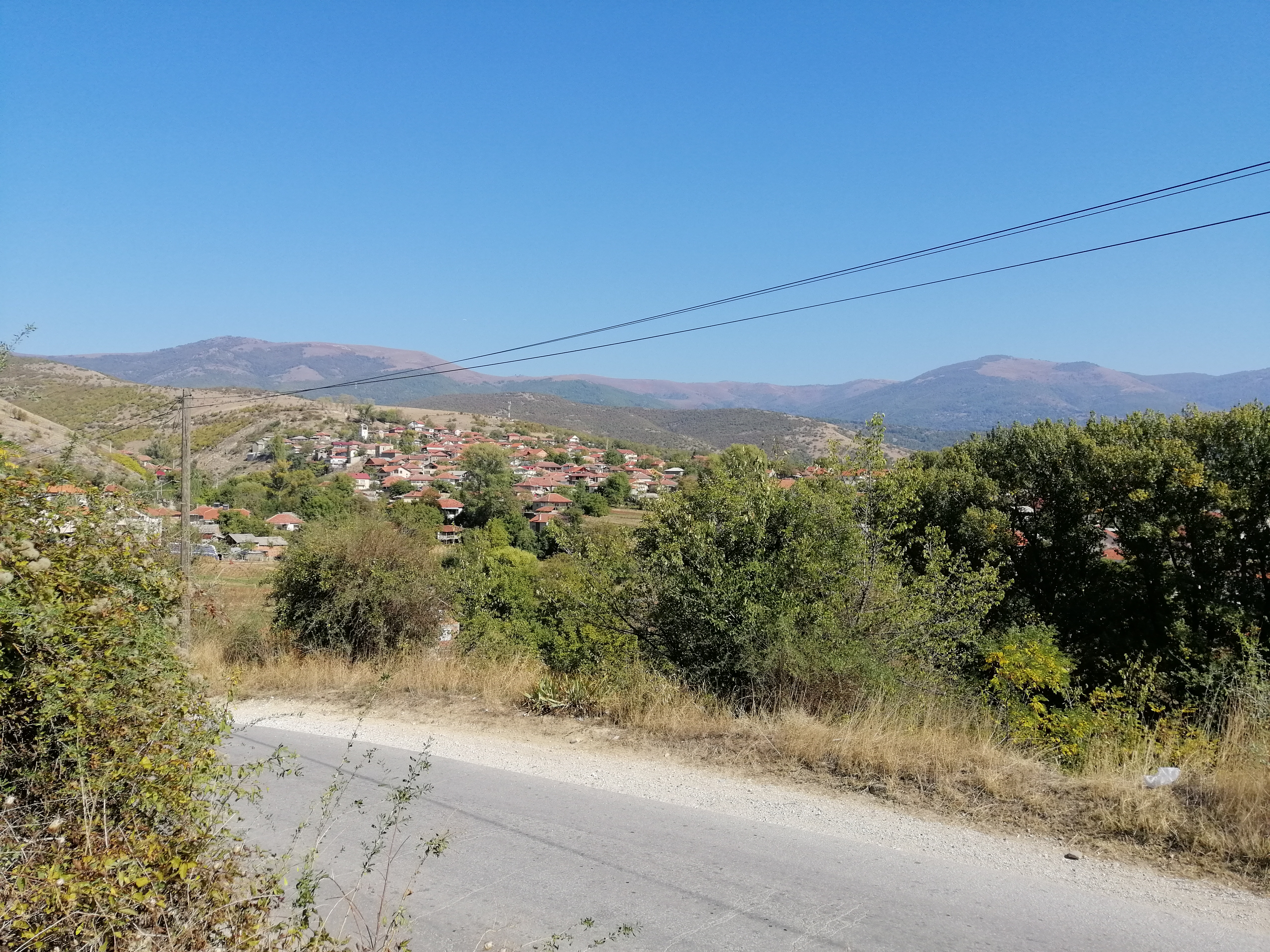 View of the village Kučevište